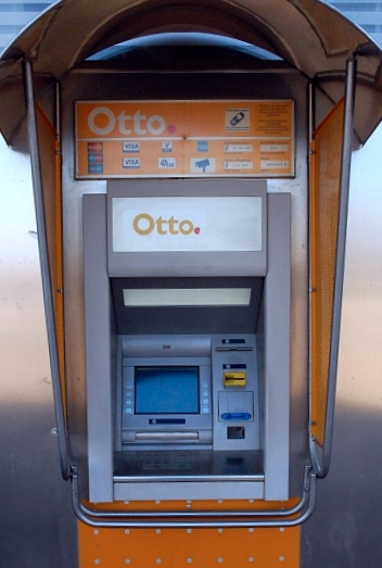 Automatic teller machine in Tampere, Finland